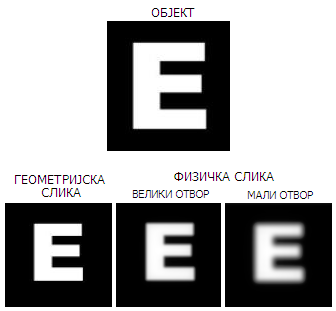 Поређење геометријске и физичке слике